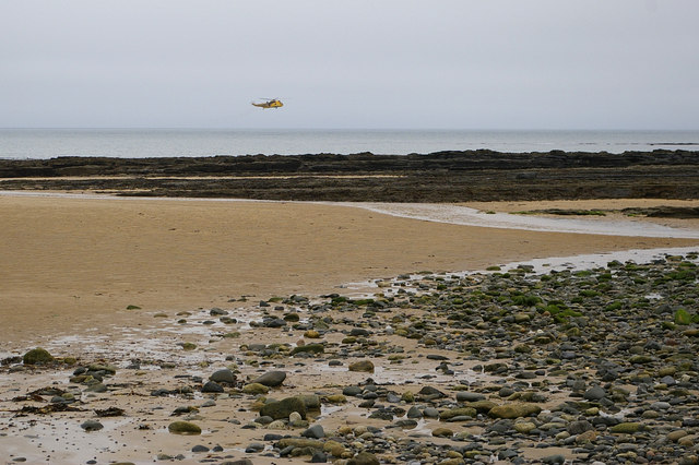 Beach at mouth of Howick Burn The Search and Rescue helicopter just offshore is a Sea King Mark 3 of 'A' Flight 202 Squadron, based at RAF Boulmer about 2km south west, and is probably on a training flight